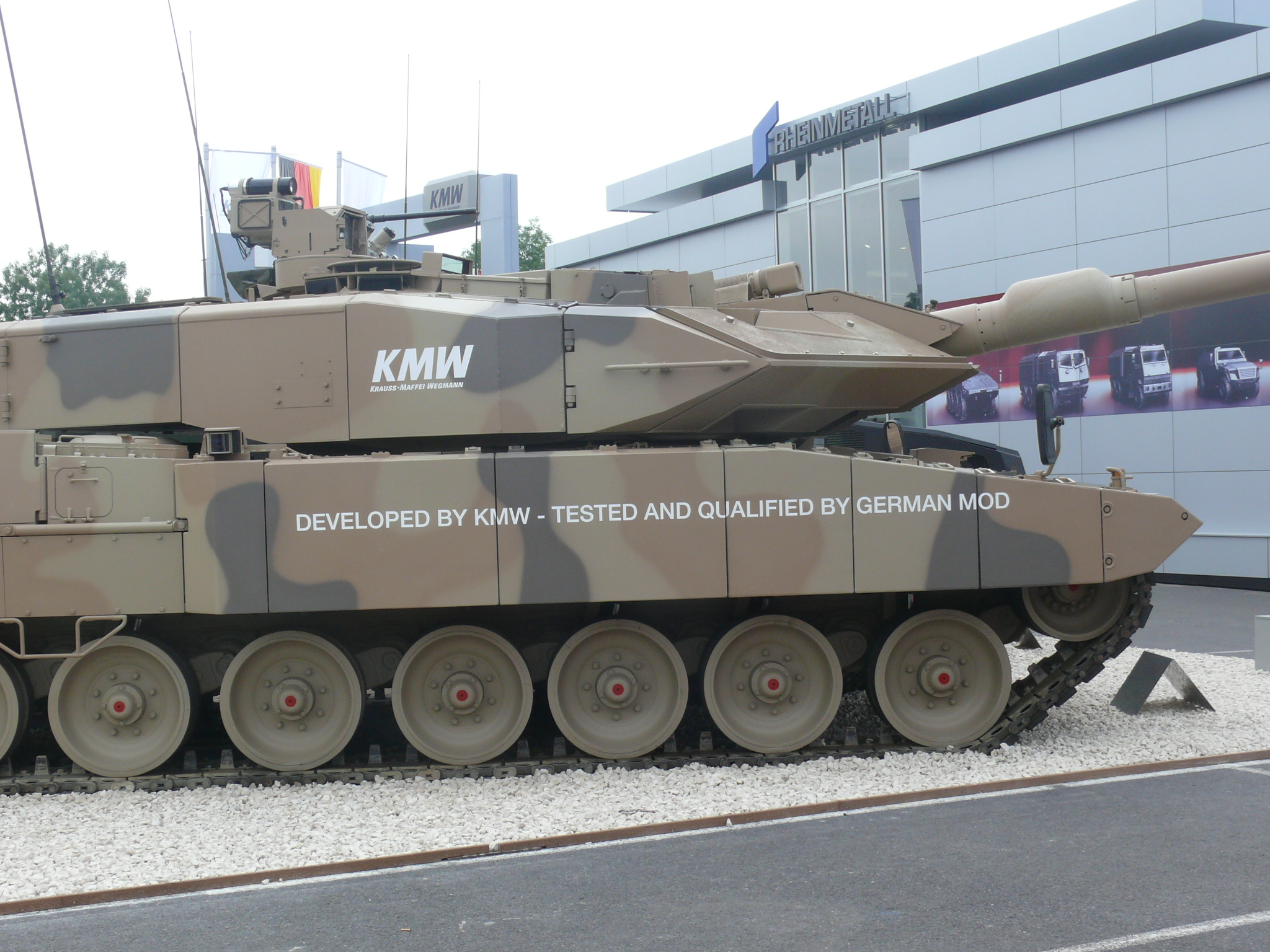 Leopard 2 A7